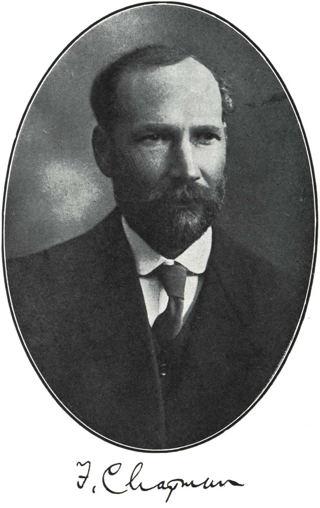 Australian paleontologist Frederick Chapman.